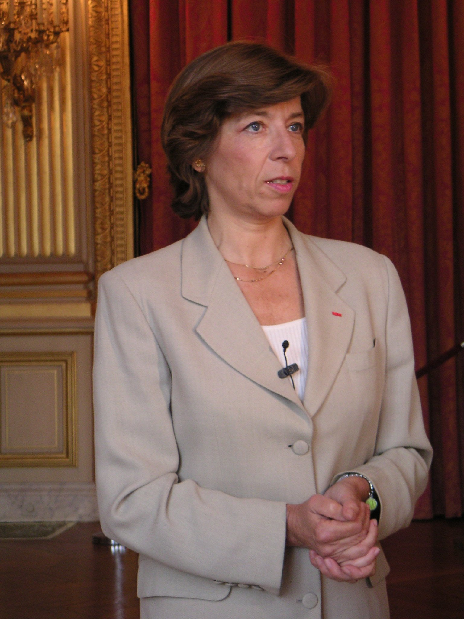 Catherine Colonna in 2007.